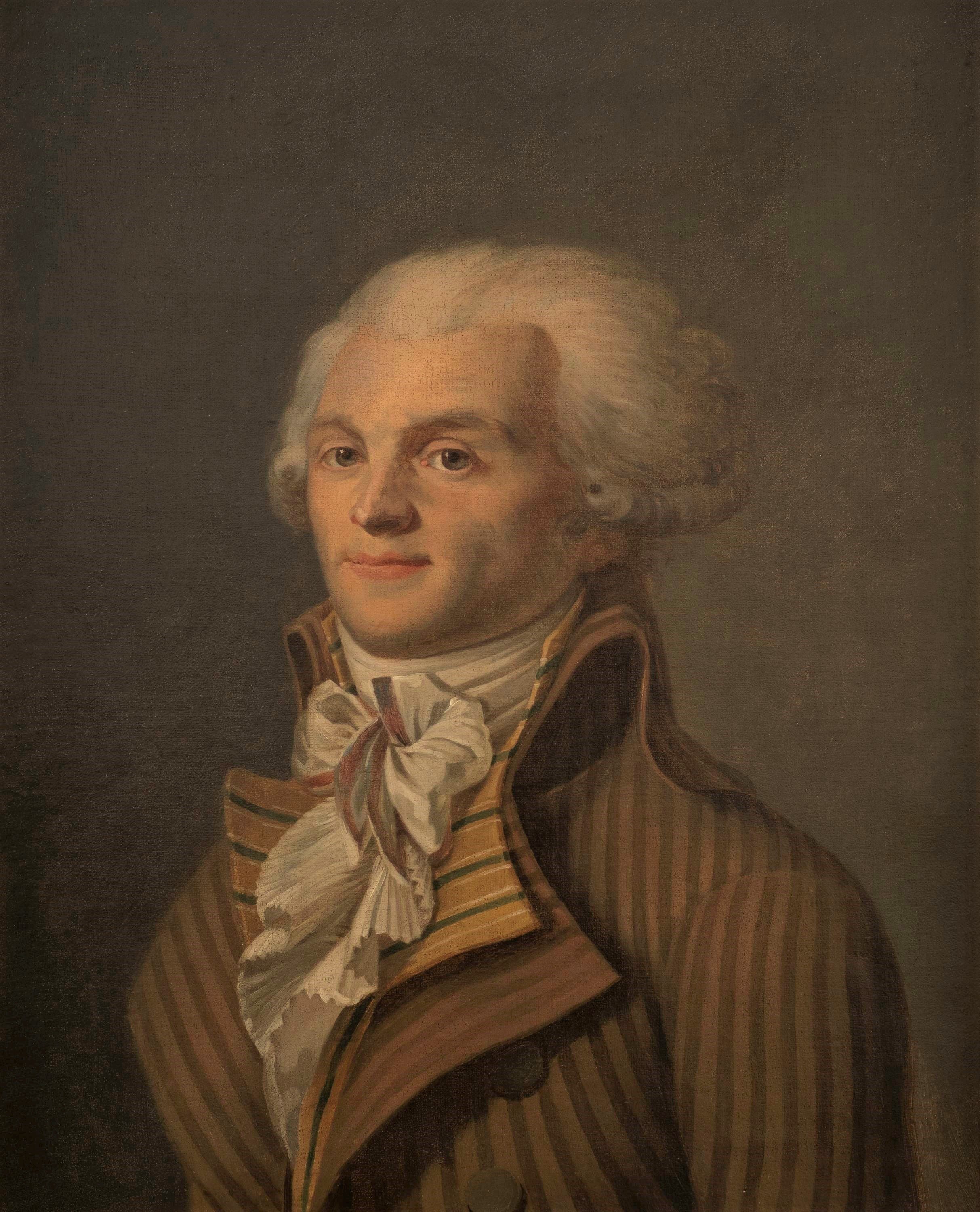 Portrait of Maximilien Robespierre (1758-1794)